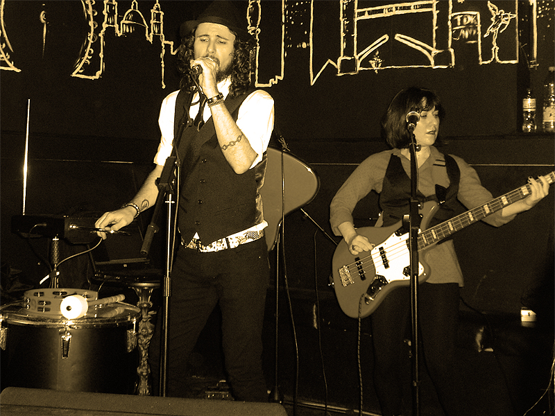 Guiye Frayo live gig at "The Source Below", 11 Lower John St, London W1F 9TY, August 31st 2009